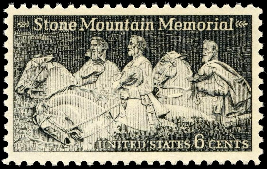 Image of U.S. commemorative stamp depicting (from left to right) Jefferson Davis, Thomas J. "Stonewall" Jackson and Robert E. Lee on horseback. The stamp was issued in conjunction with the dedication of the Stone Mountain Confederate Memorial in Georgia on May 9, 1970. The design of the stamp is a replication of the actual memorial.